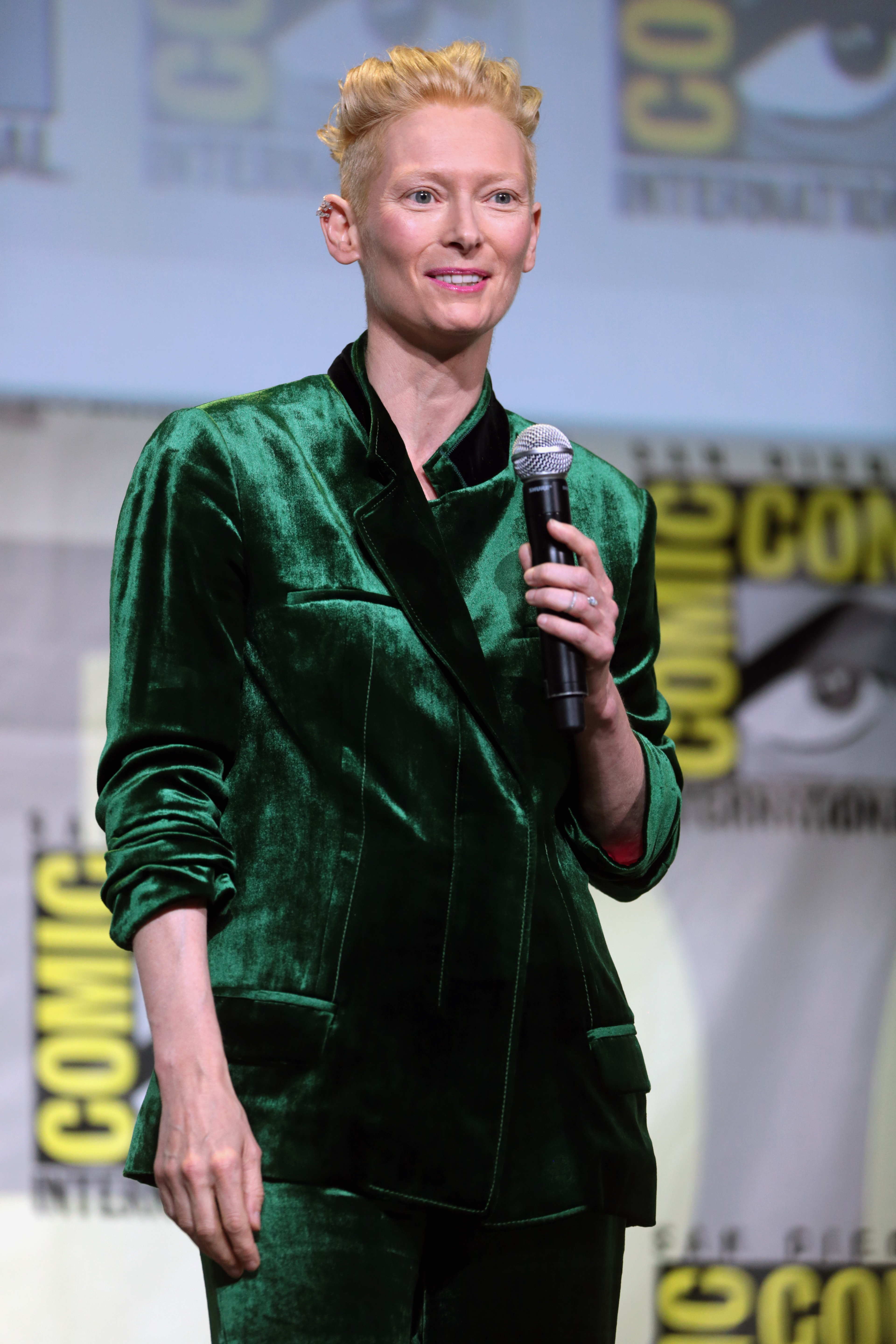 Tilda Swinton speaking at the 2016 San Diego Comic-Con International in San Diego, California.